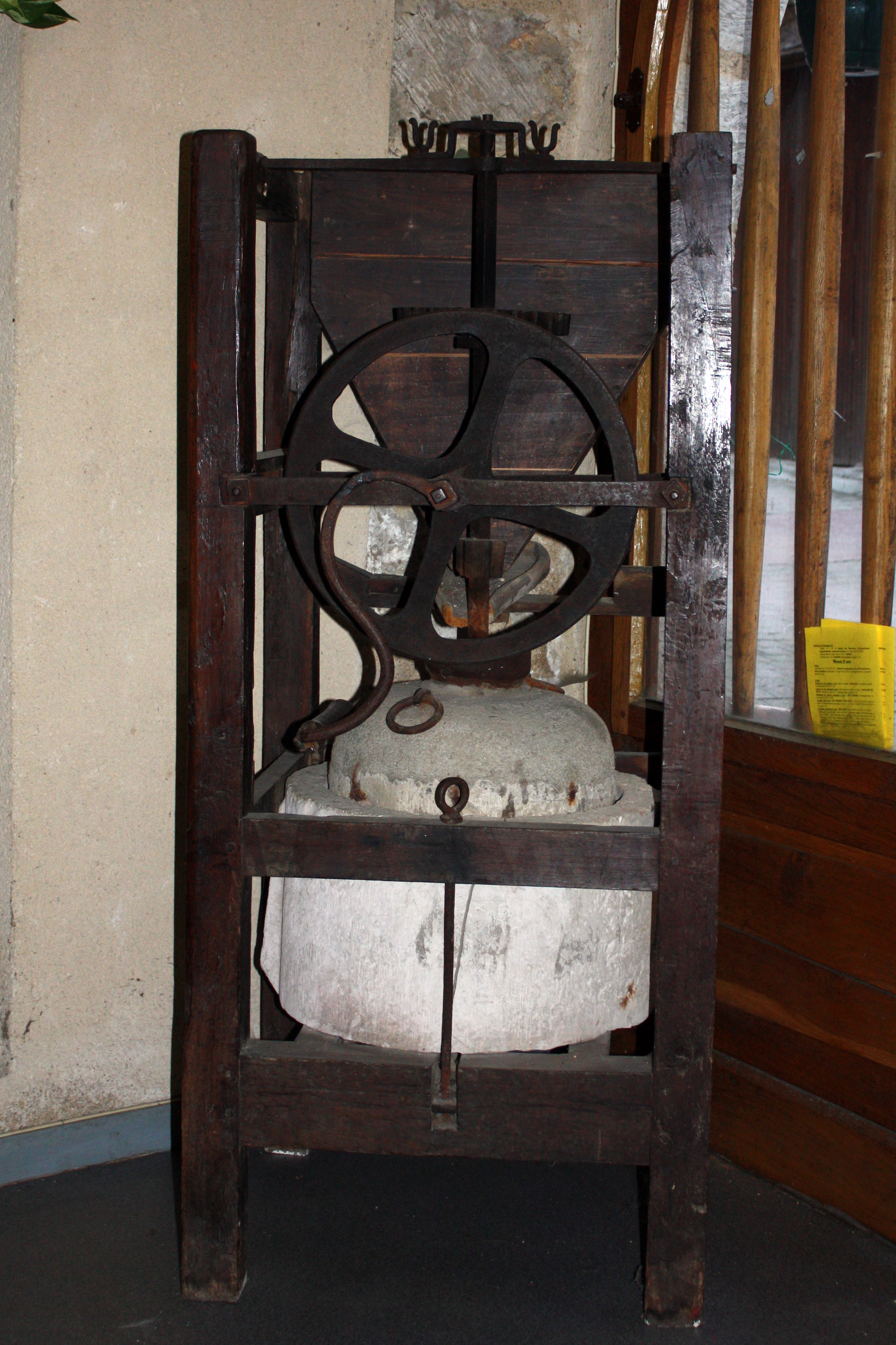 The curious pepper grinder of the Tourism Office.